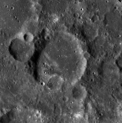 LRO-WAC image